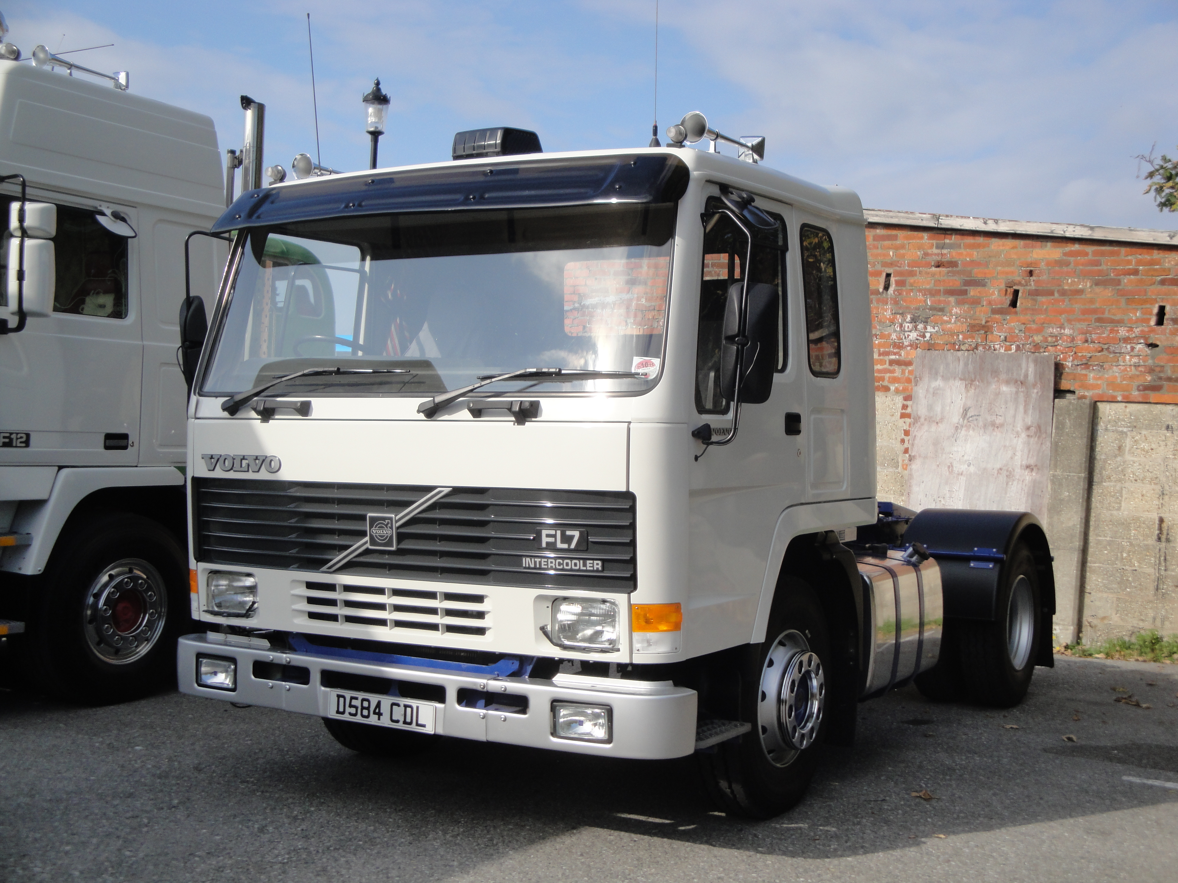 A Volvo FL7 (D584 CDL), in Newport Quay, Newport, Isle of Wight for the Isle of Wight Bus Museum's October 2011 running day.